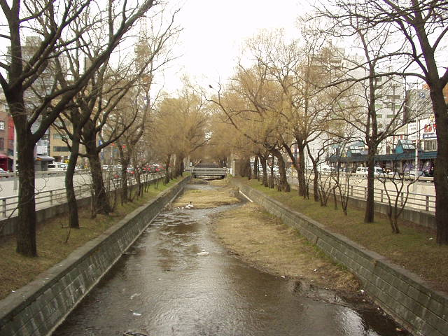 The Sōsei River, in the central ward of Sapporo, Hokkaido, Japan. Taken from the bridge on Minami-Sanjo-doori, facing north.